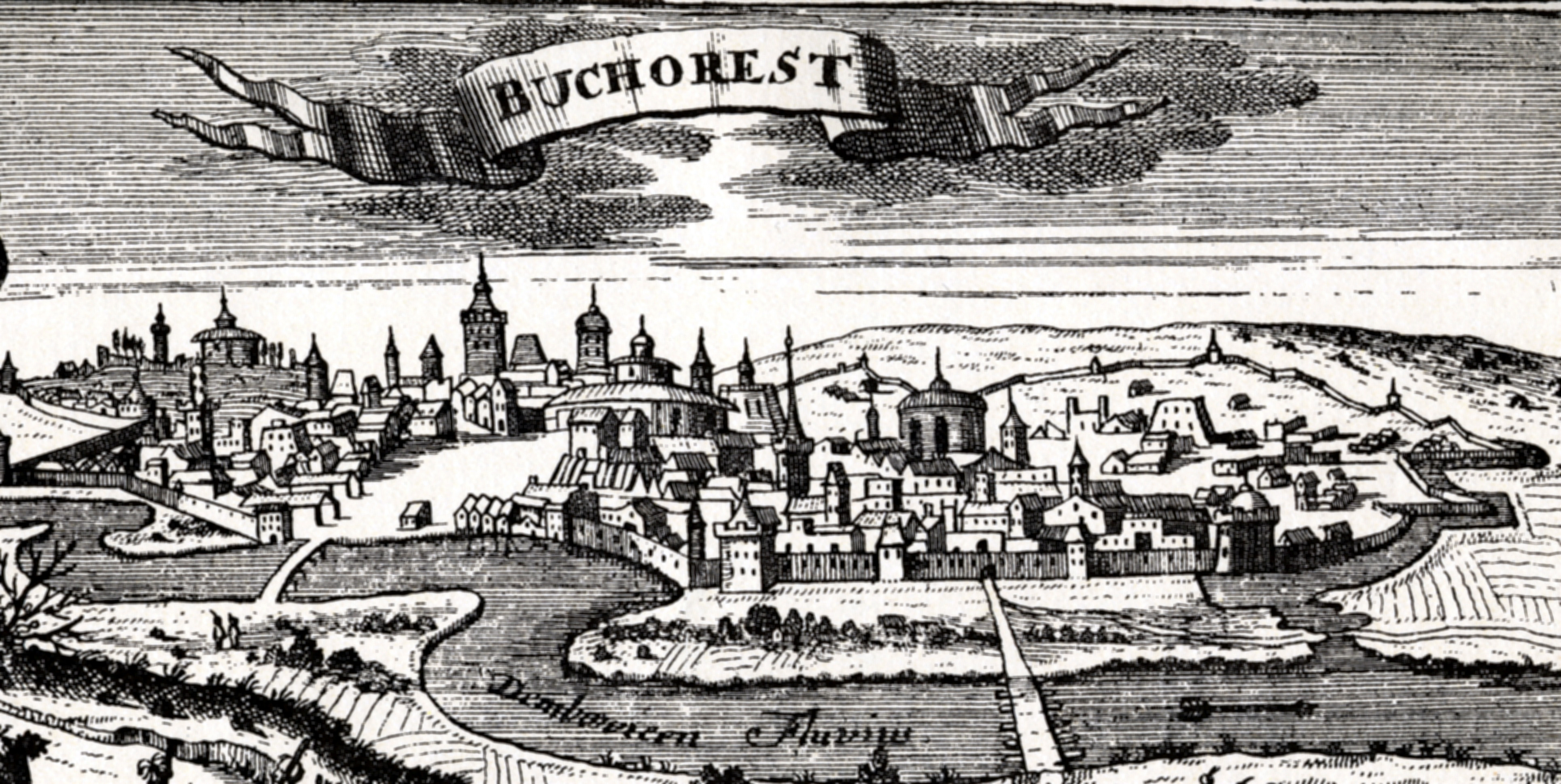 View of Bucharest, 1717